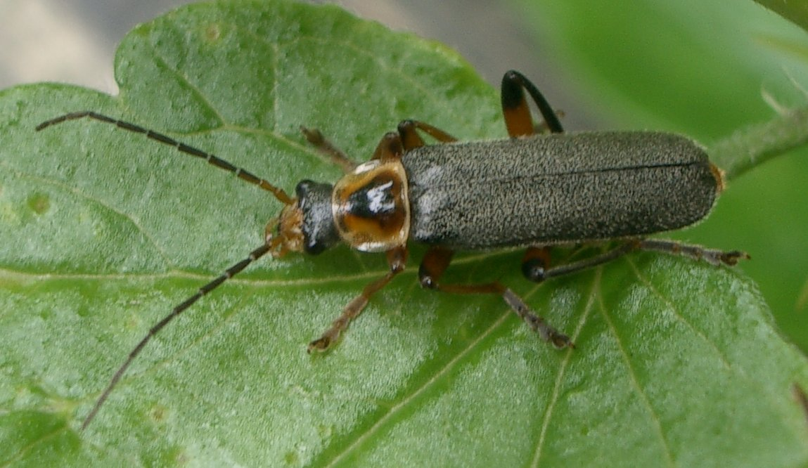 Description: Cantharis nigricans